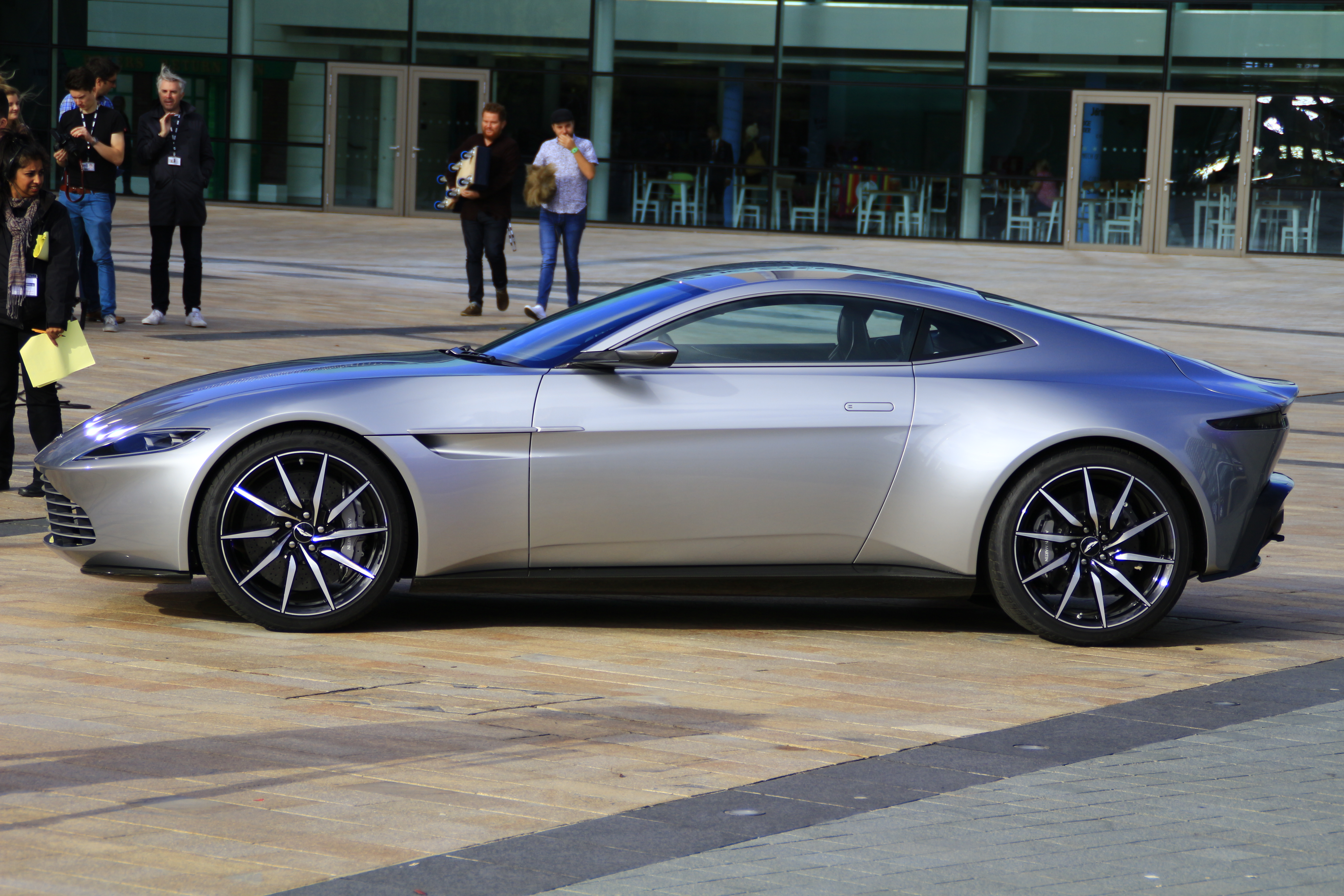 shooting for Blue Peter reviewing the new James Bond Car DB10 specially made for the new bond film only 10 of them in the whole world.